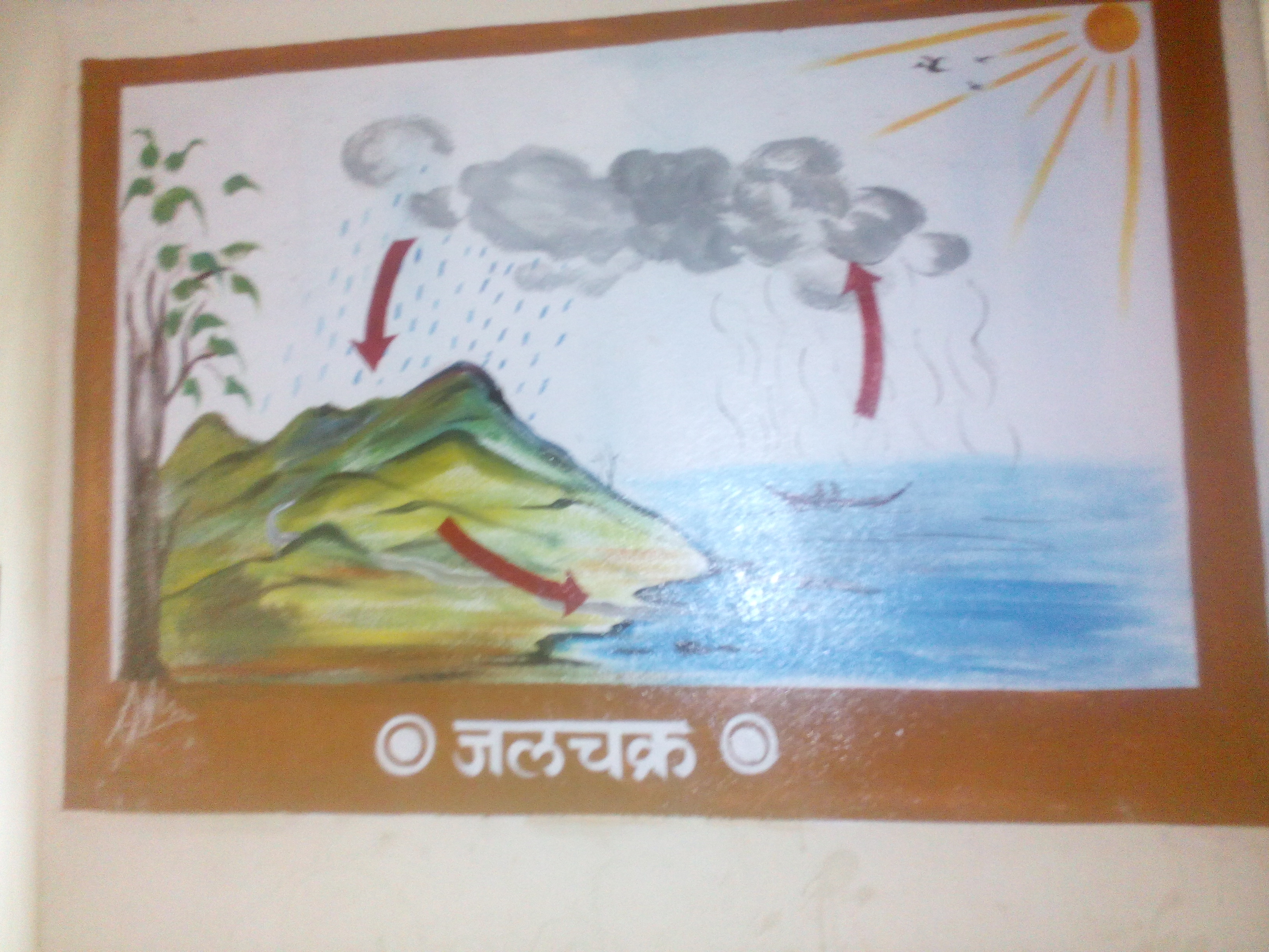 बोलक्या भिंती